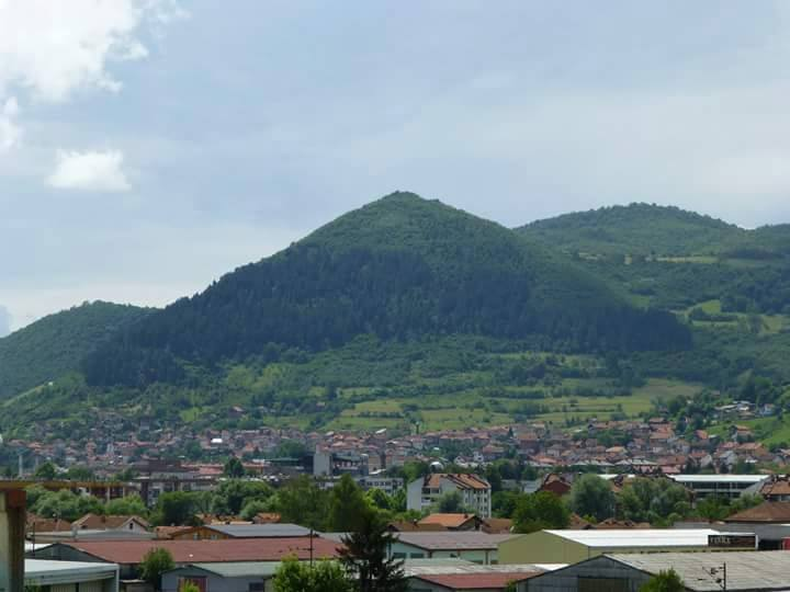 Bosnian Sun Pyramid lookout